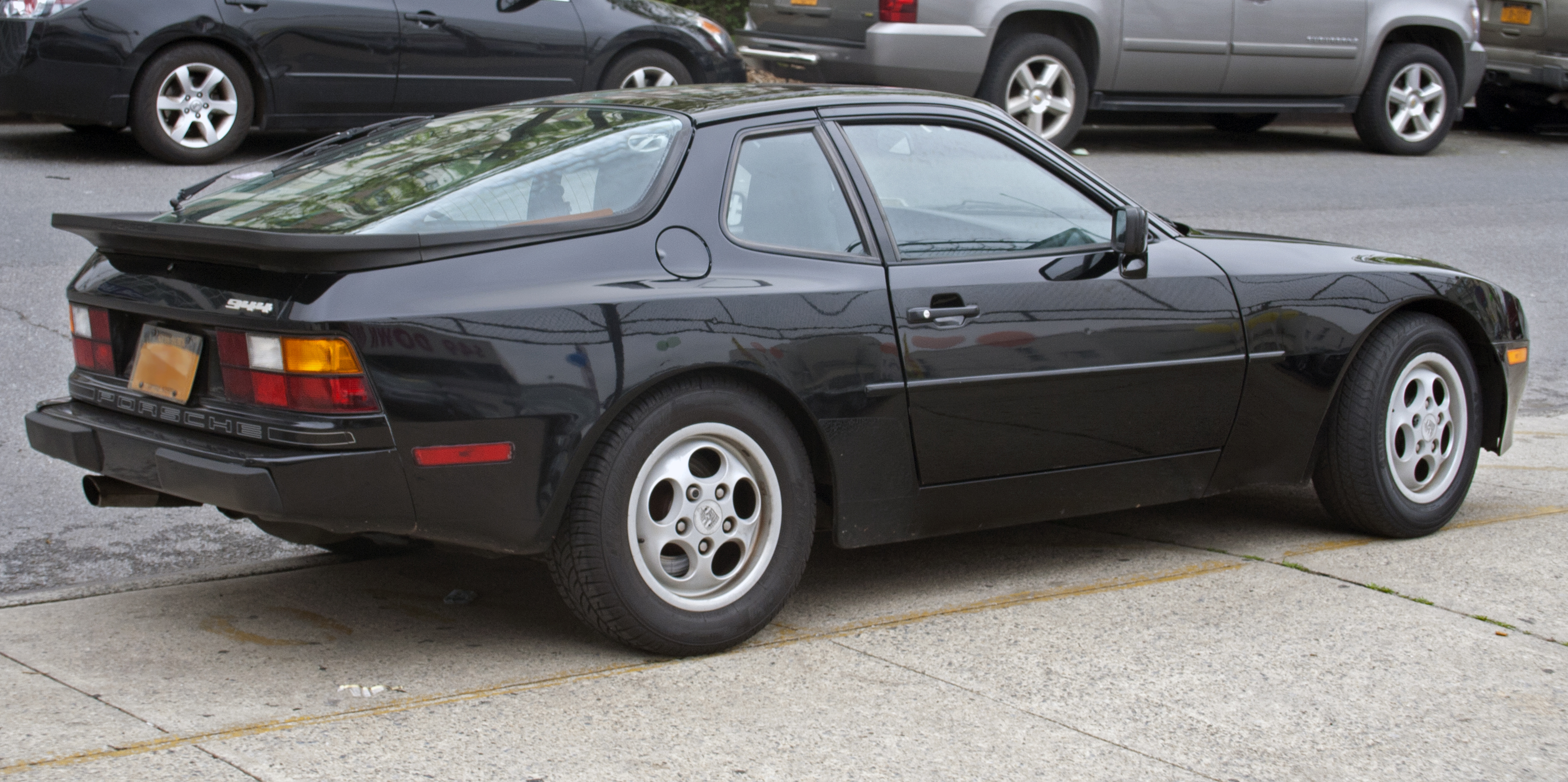 1989 Porsche 944, the only model year in which the base 944 received the 2.7 litre four. This car has ABS and climate control and whatnot (but no airbags), and cost $33,245 when new.